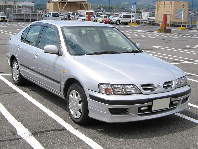 Nissan "Primera" (P11 / 2nd generation) 1997/9-2001/1